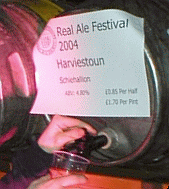 Crop of Image:ServingAle.png The owner has released the image into the public domain. SilkTork 10:46, 24 June 2007 (UTC)